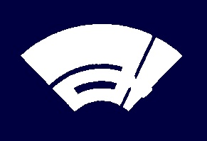 Flag of Mihama Mie